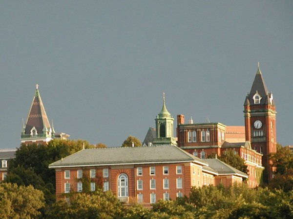 Carlin Hall a residence at the College of the Holy Cross